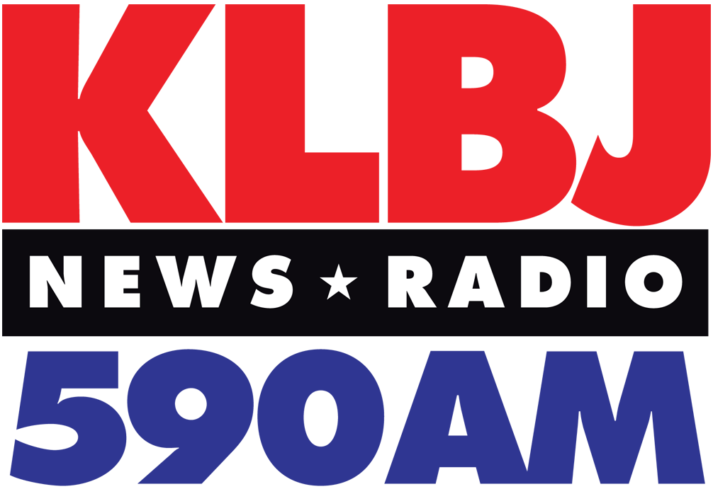 Logo for NewsRadio KLBJ